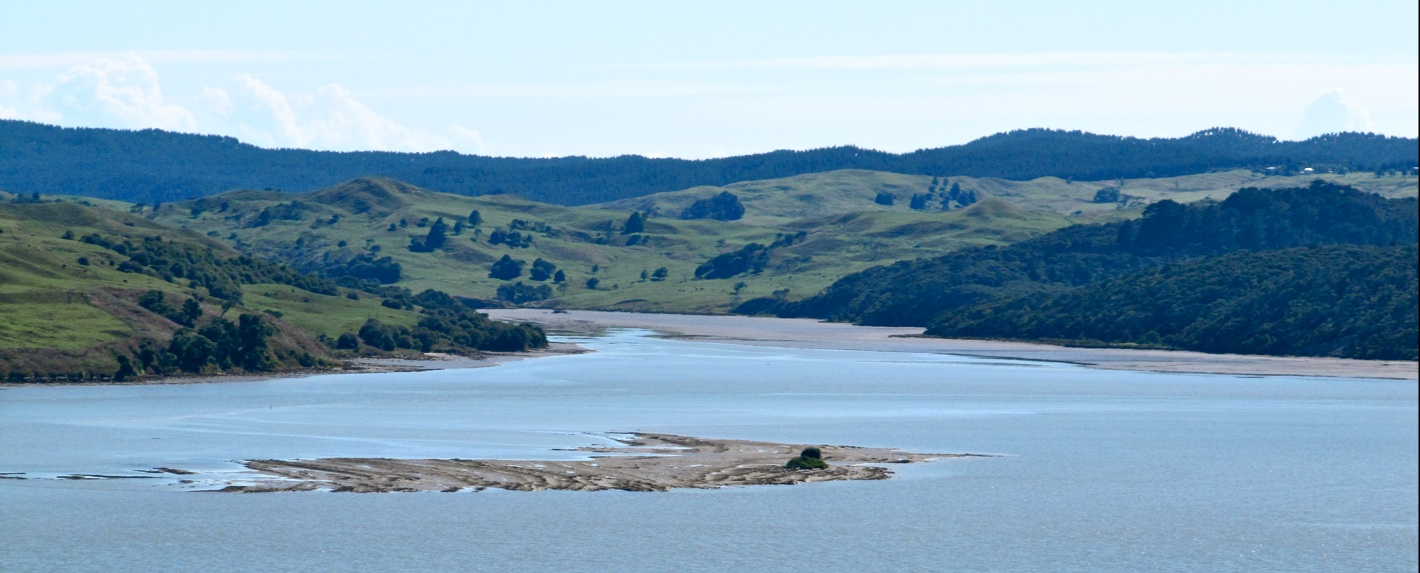 from Paritata